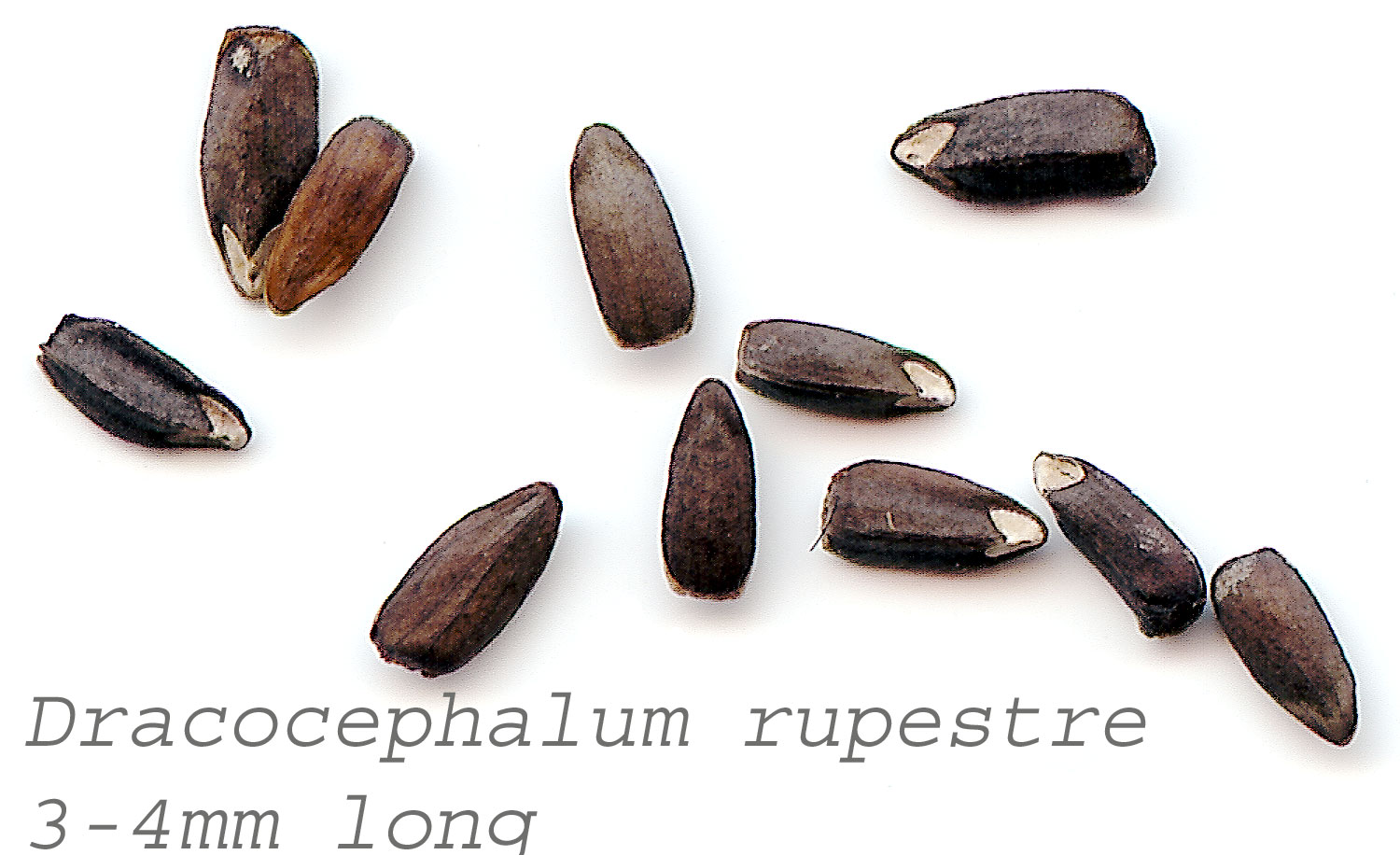 Self made scan of the seeds of Dracocephalum rupestre, made 01/04/2008.